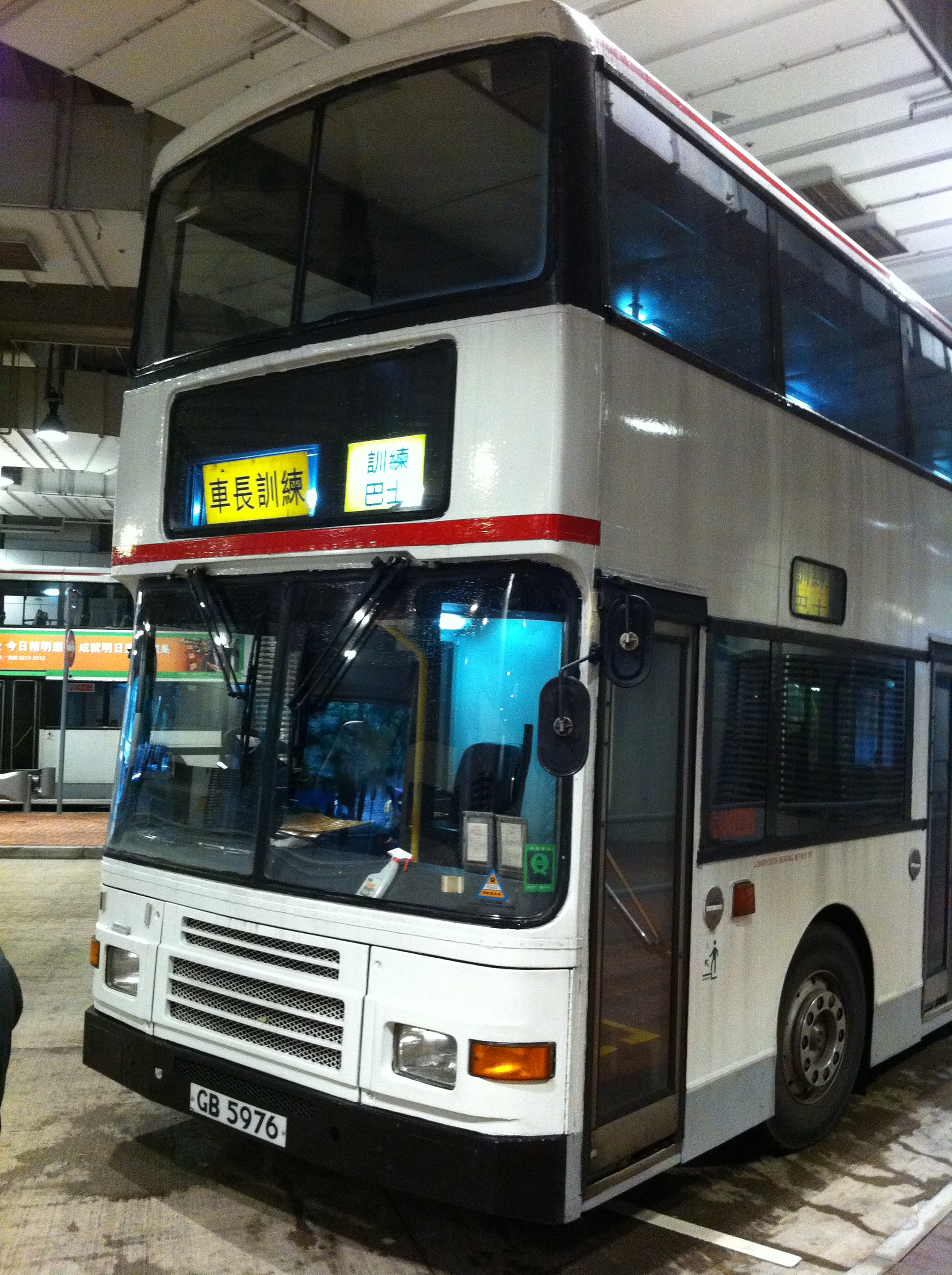 TST East Mody Road Bus Terminus, Tsim Sha Tsui East, Hong Kong